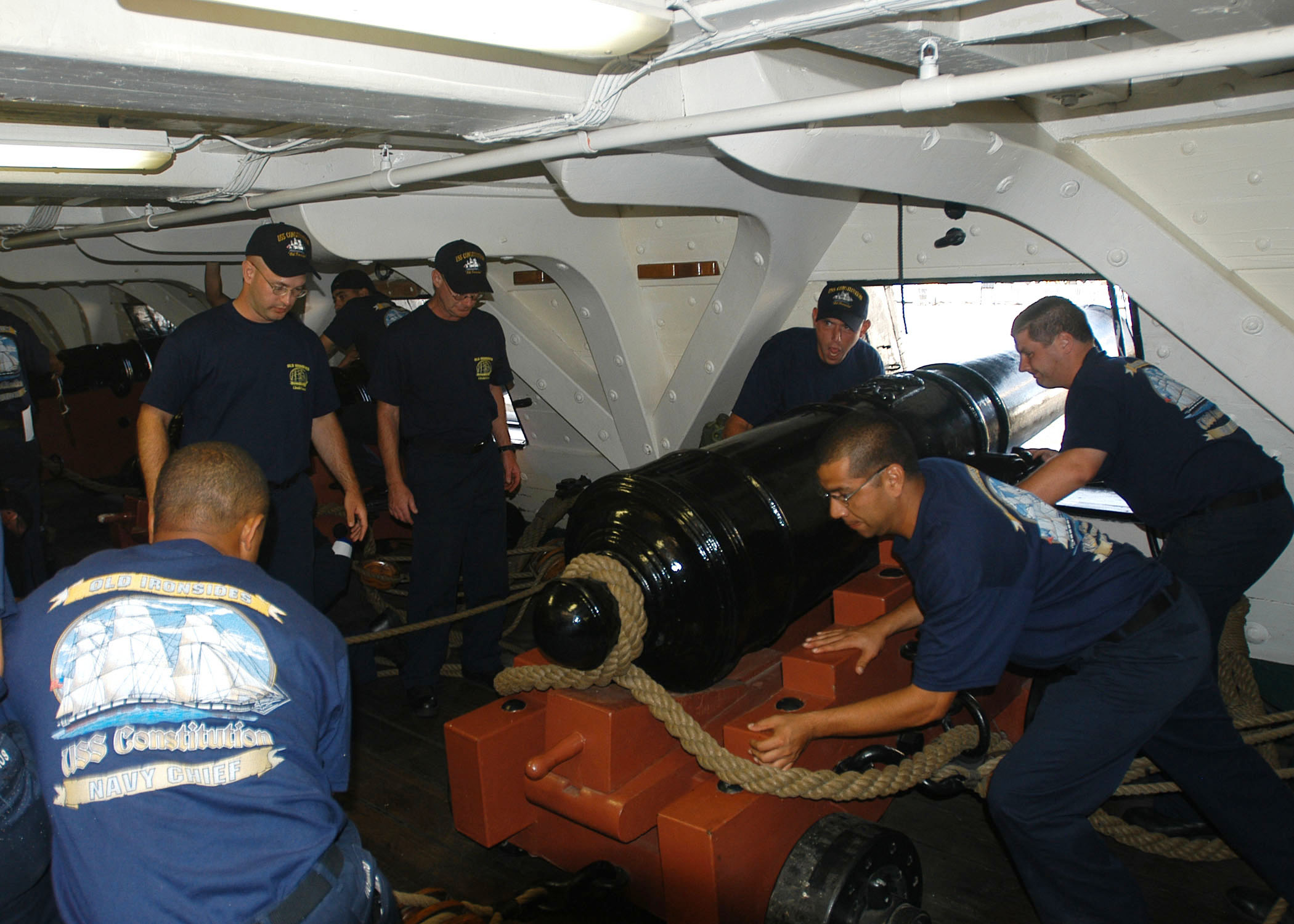 Boston (Aug. 25, 2005) - Chief petty officer (CPO) selectees practice loading and firing a 5600 lb canon on the gun deck of oldest floating commissioned ship, USS Constitution. "Old Ironsides" is a part in CPO selectee training every summer, teaching approximately 300 new chiefs leadership and teamwork skills from naval history so they can apply that knowledge in their modern careers. U.S. Navy photo by Chief Photographer's Mate Don Bray (RELEASED)